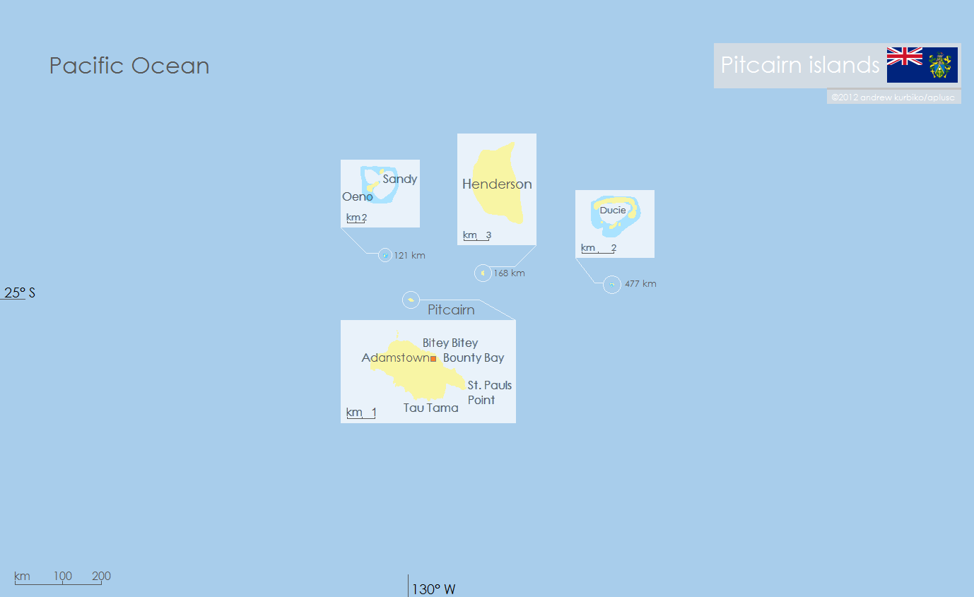 Map of Pitcairn by Aplusc Studio